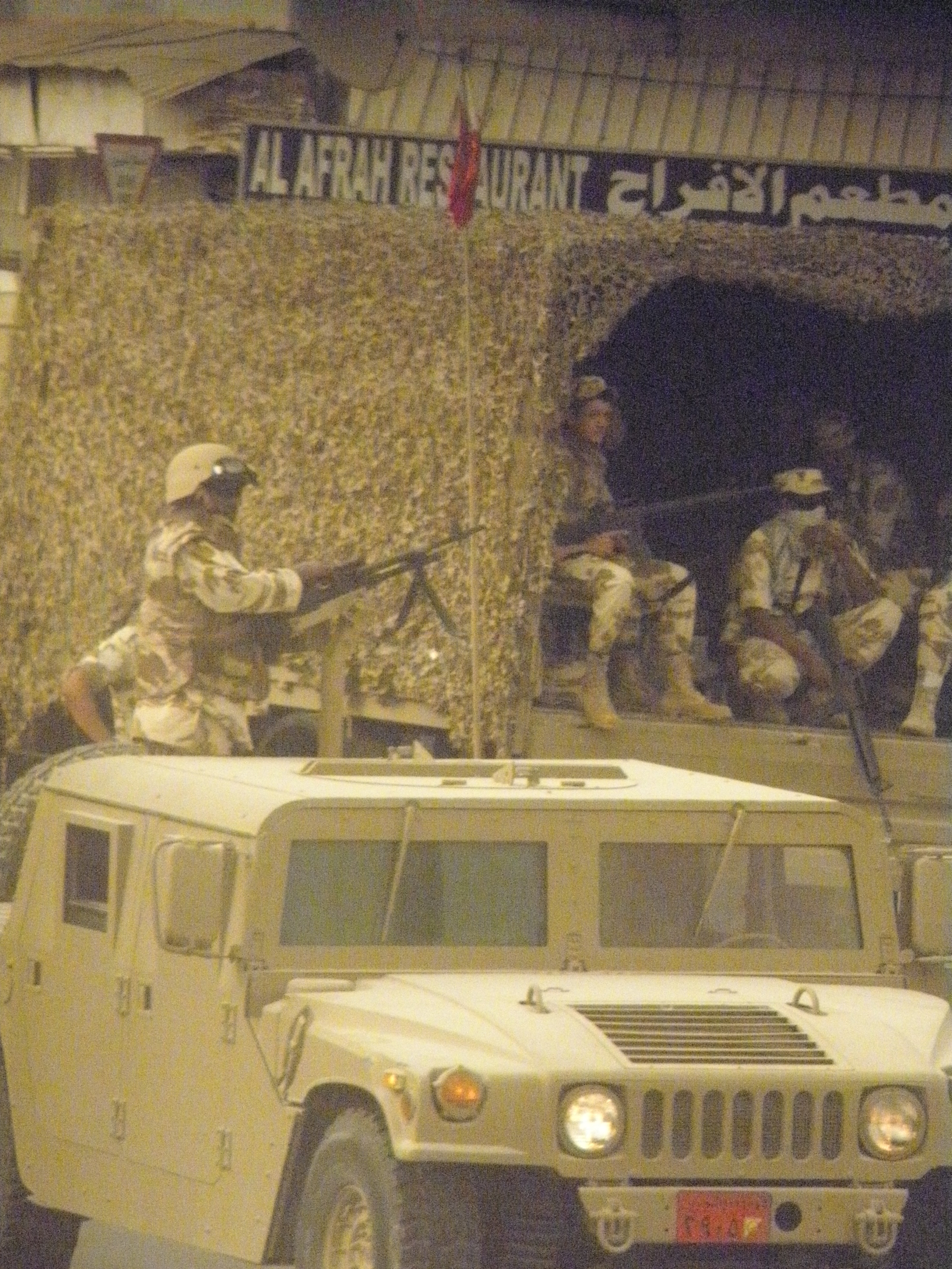 Bahrain army forces blocking an entrance of a Bahraini village